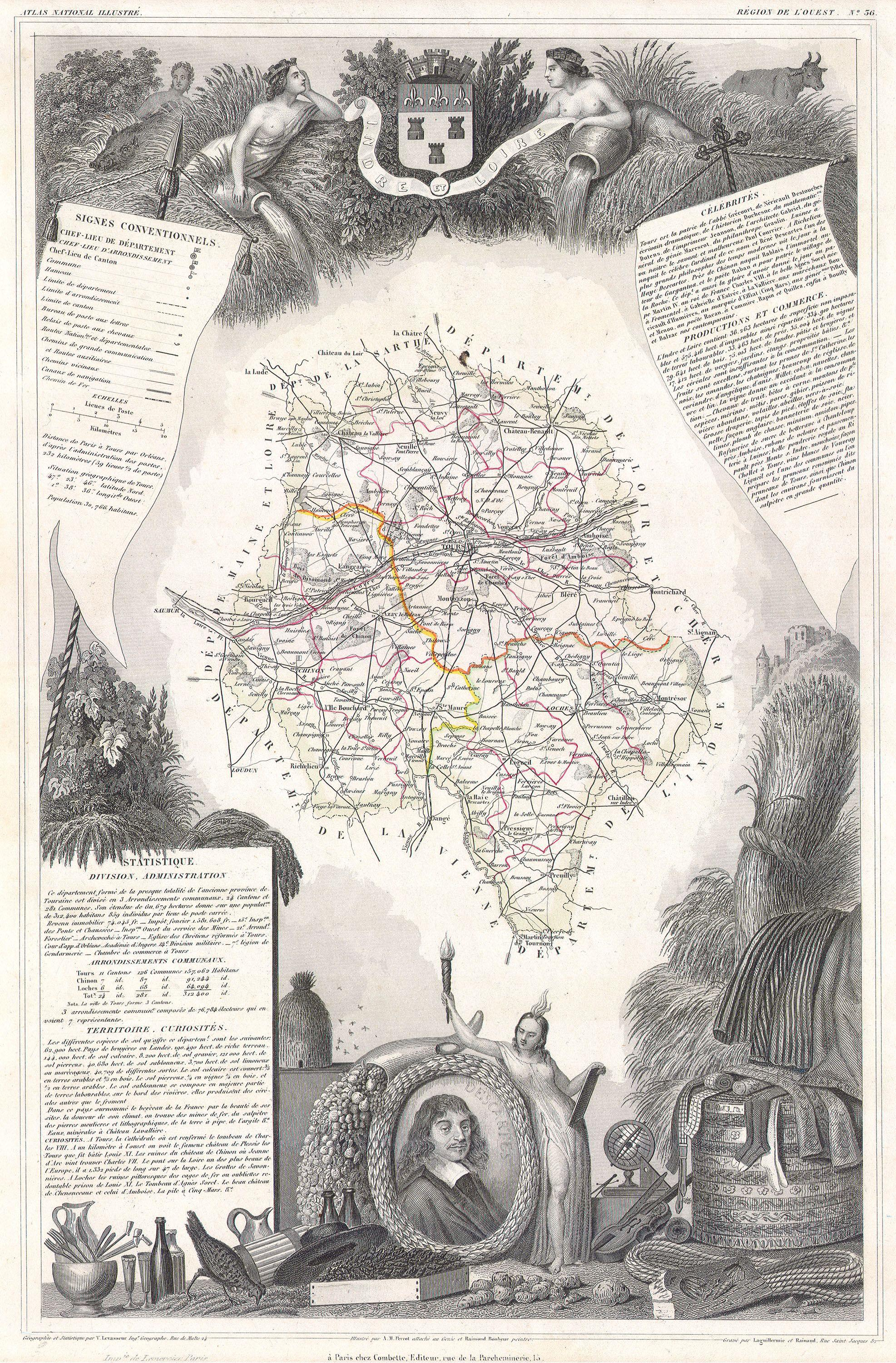 This is a fascinating 1847 map of the Department de L’Indre et Loire, France. This region is known for its fine wines, agriculture, distilled spirits, and cheese. The capital city is Tours. The whole is surrounded by elaborate decorative engravings designed to illustrate both the natural beauty and trade richness of the land. There is a short textual history of the regions depicted on both the left and right sides of the map.